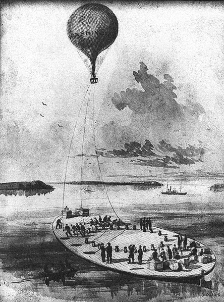 The Union balloon Washington aboard the George Washington Parke Custis and towed by the tug Coeur de Leon U.S. Navy history website, the world's first aircraft carrier.